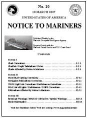 Notice to Mariners is a U.S. nautical publication.